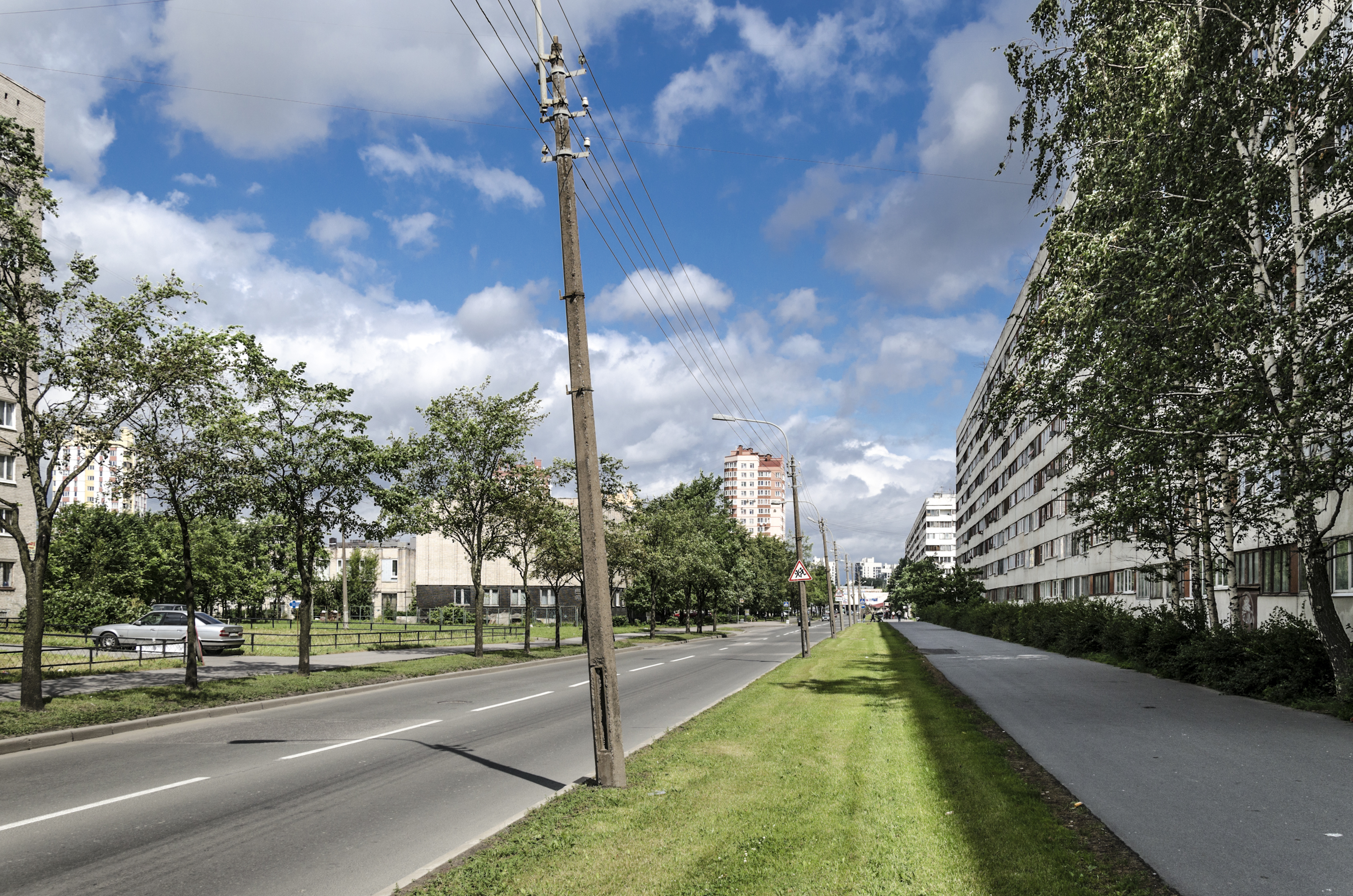 Pionerstroya street in Saint Petersburg, Russia